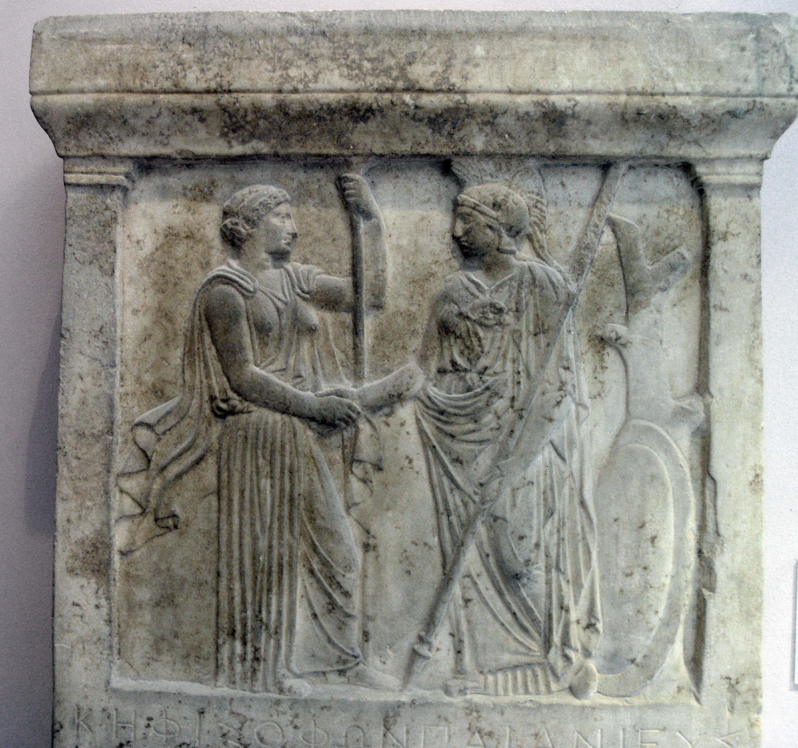 Relief inscribed stele with the Samain honorary decree. The relief depicts Hera and Athena, patron-deities of Samos and Athens respectively, clasping hands. According to the inscription, the demos of the Athenians honors the Samians, because they remained loyal to them, after the defeat of the Athenian fleet at Aigos Potamoi by the Spartians, although their other allies had revolted. The text is a copy of the original decree issued in 405 BC, inscribed in 403/2 BC.